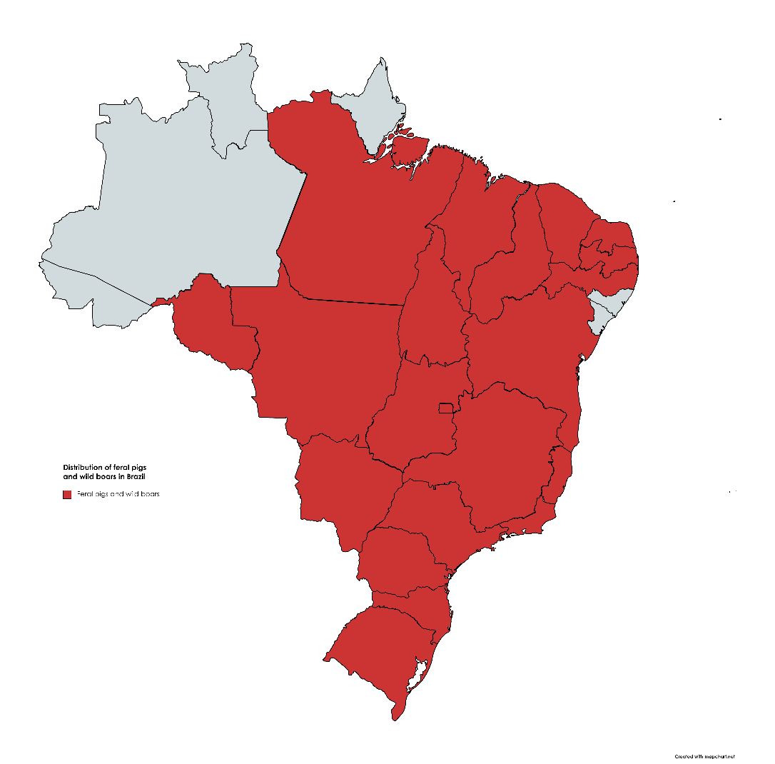 Distribution of feral pigs and wild boar(Sus scrofa) in Brazil. Made with . Based on the publication: Current distribution of invasive feral pigs in Brazil: economic impacts and ecological uncertainty